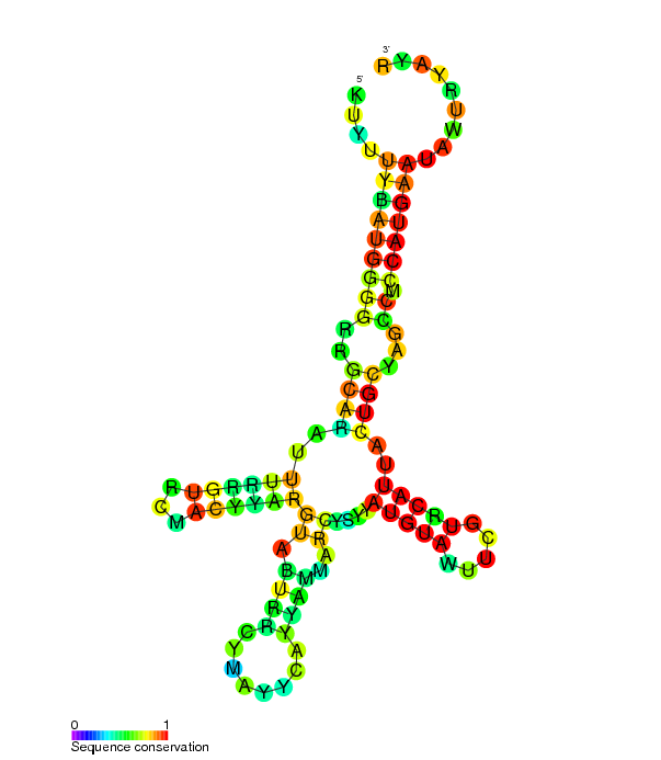 The consensus secondary structure of RNA produced from the mtDNA control region